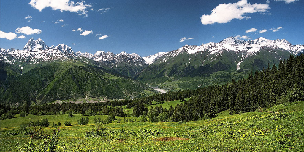 Svaneti region, Georgian Republic.